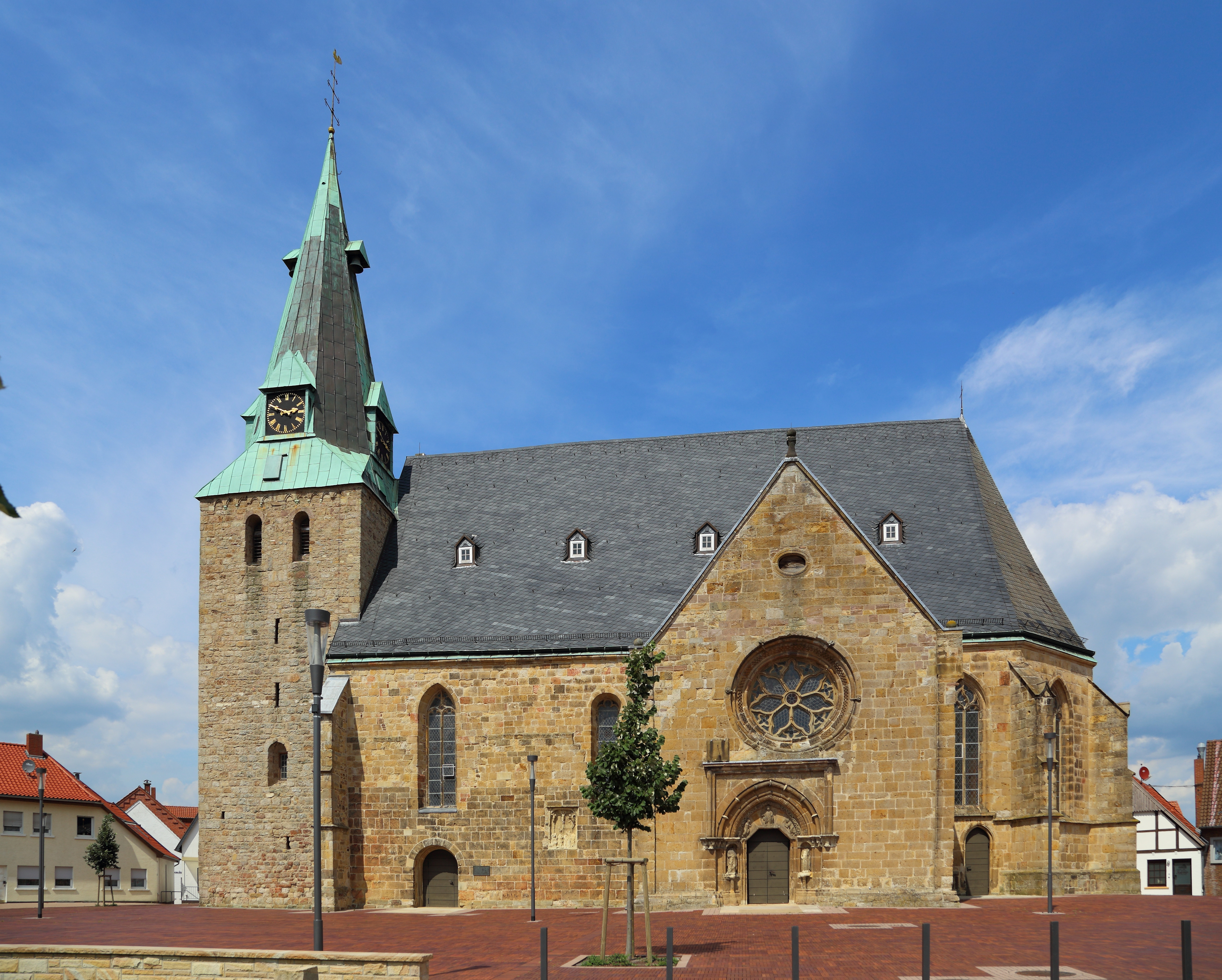 The Protestant City Church (Evangelische Stadtkirche) in Westerkappeln, Kreis Steinfurt, North Rhine-Westphalia, Germany. The church is a listed cultural heritage monument.